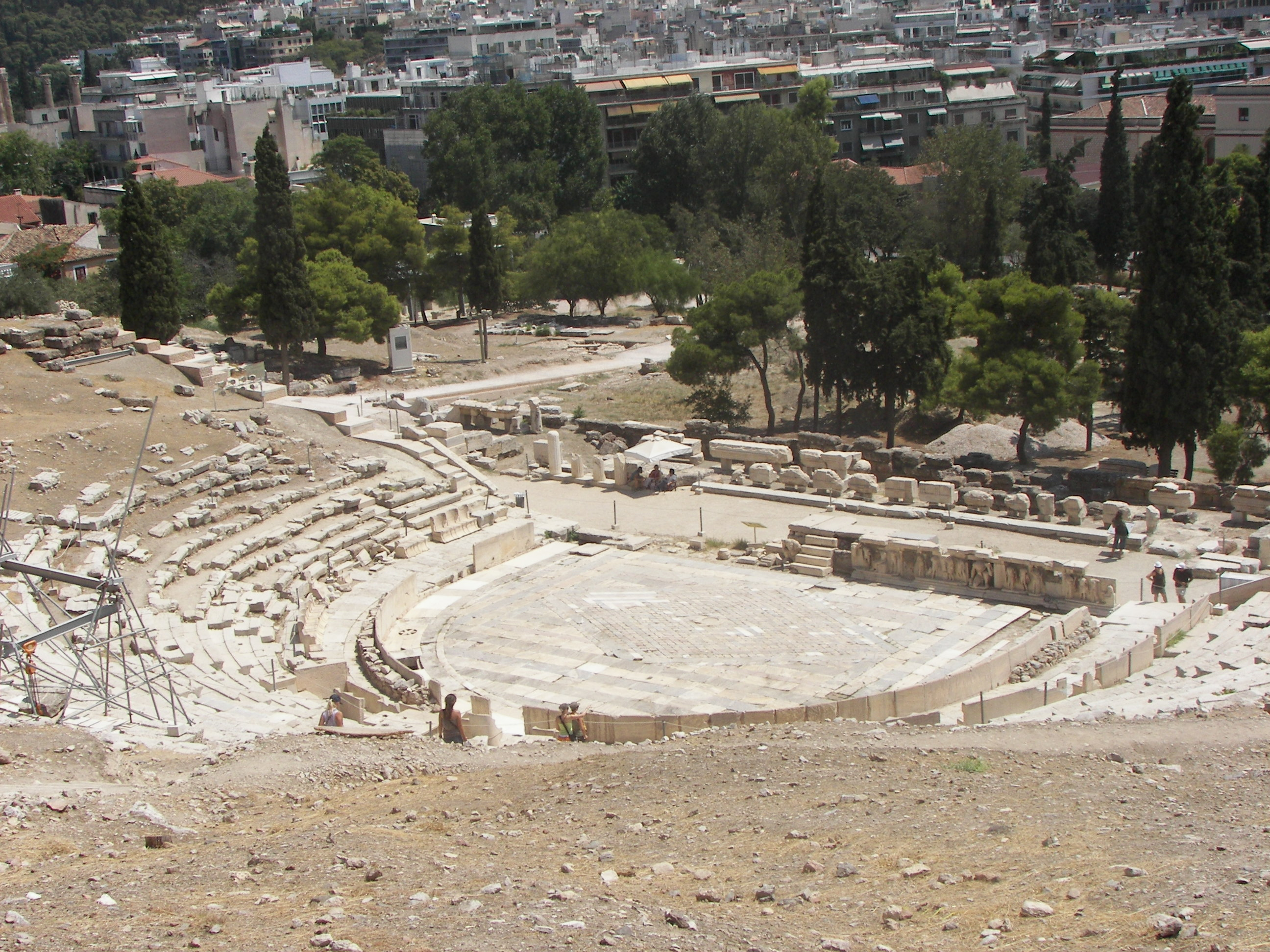 Dionisos Theatre, acropolis